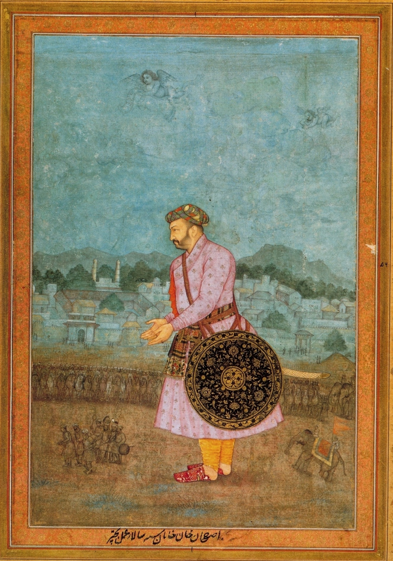 Portrait of Abdul Hasan Asaf Khan, page from the Minto Album